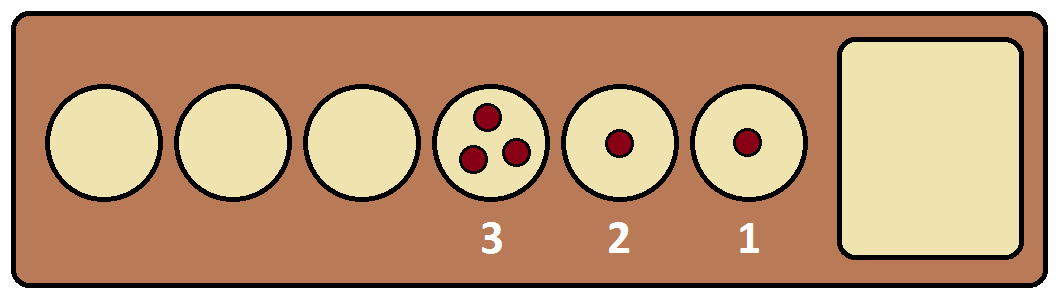 The five-stone "clearing pattern" for the game Kalah. The stones can be captured in a single turn by playing 1, 3, 1, 2, 1.